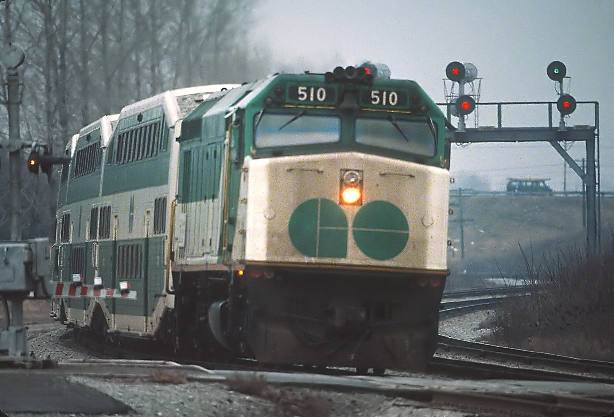 GO Transit F40PH 510 on CN's Kingston Sub in the area around Scarborough Golf Club Road.